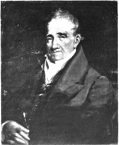 Portrait of Daniel Bowen (ca. 1760–1856), proprietor of the Columbian Museum in 19th c. Boston